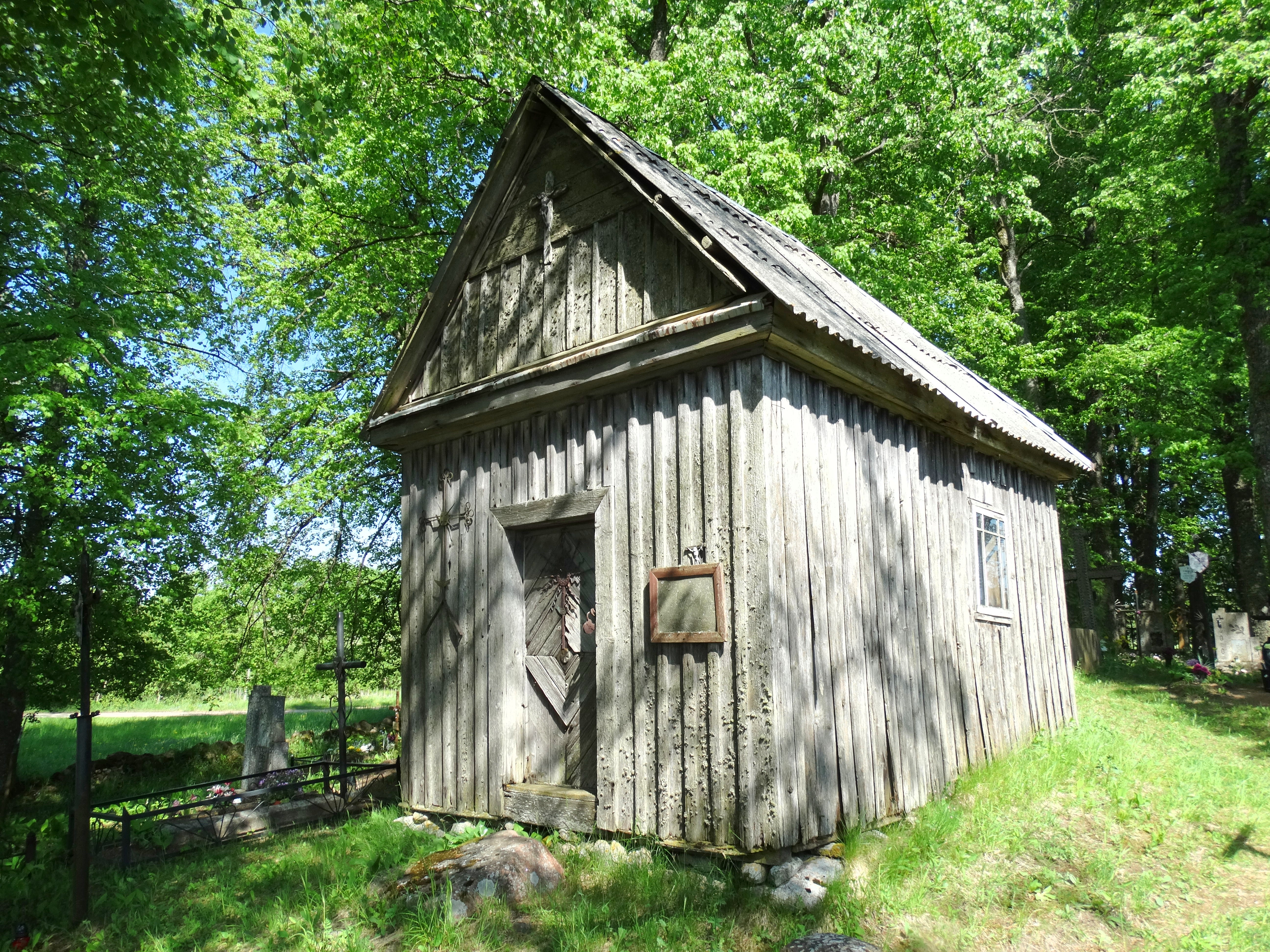 Chapel, Senasis Daugėliškis, Ignalina district, Lithuania